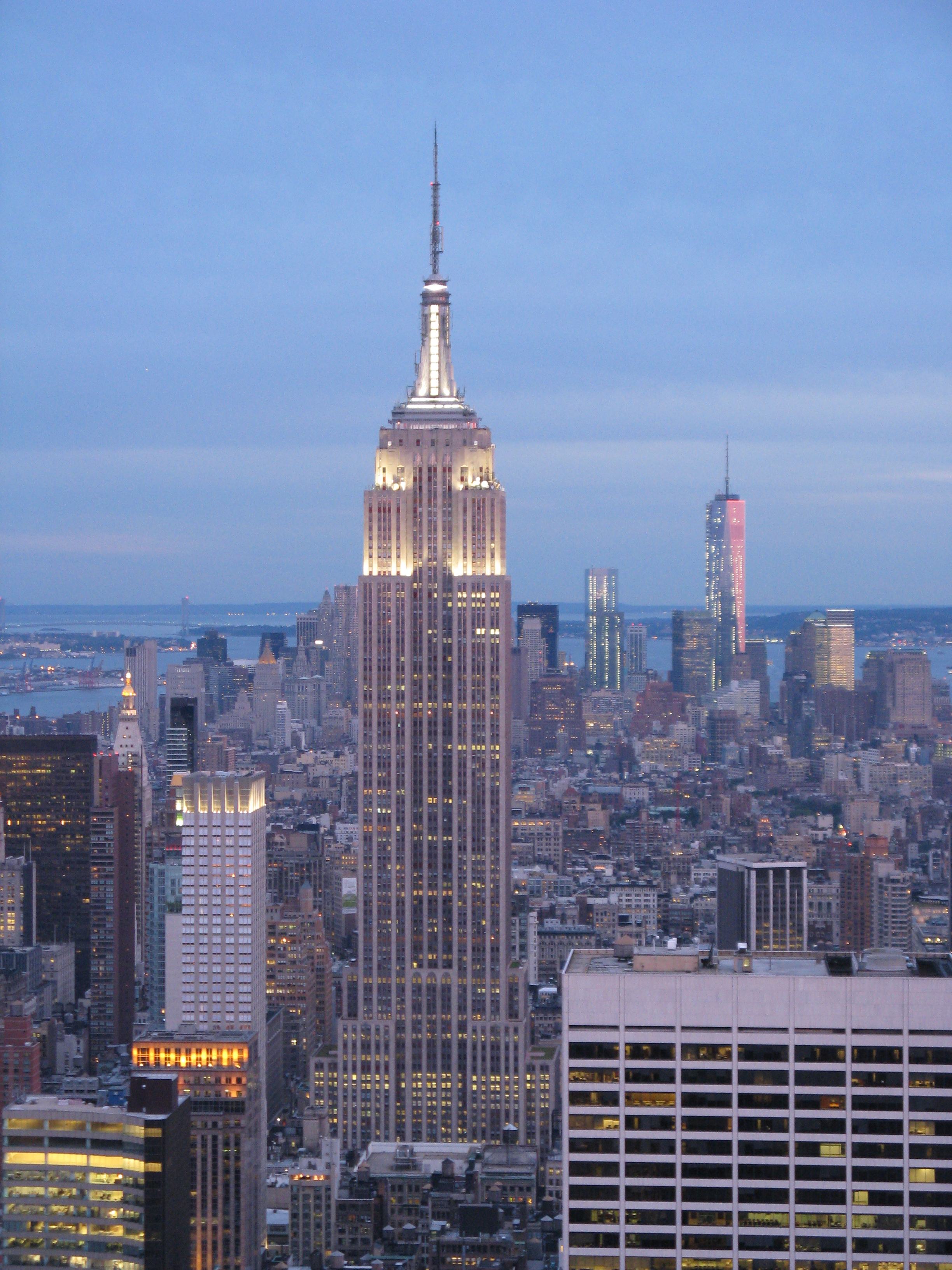 Empire State Building from Top of the Rock (GE Building)